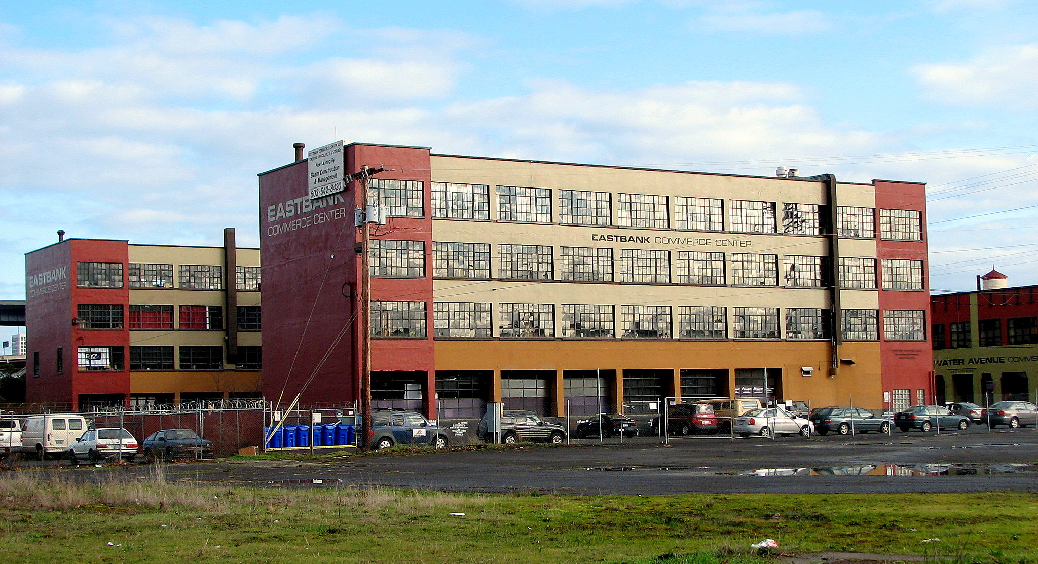 The historic Auto Freight Transport Building of Oregon and Washington (built 1924), located at 1001 Southeast Water Street in Portland, Oregon, United States, is listed on the US National Register of Historic Places (NRHP).